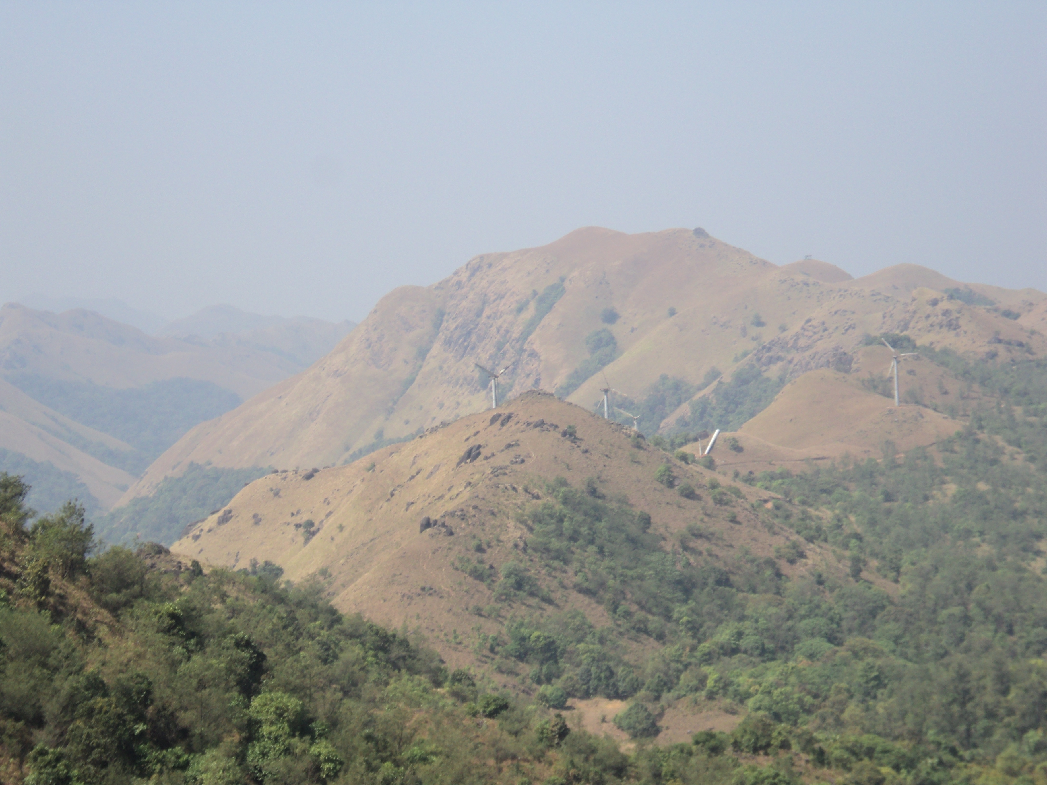 Brahma Giri from Talacauveri